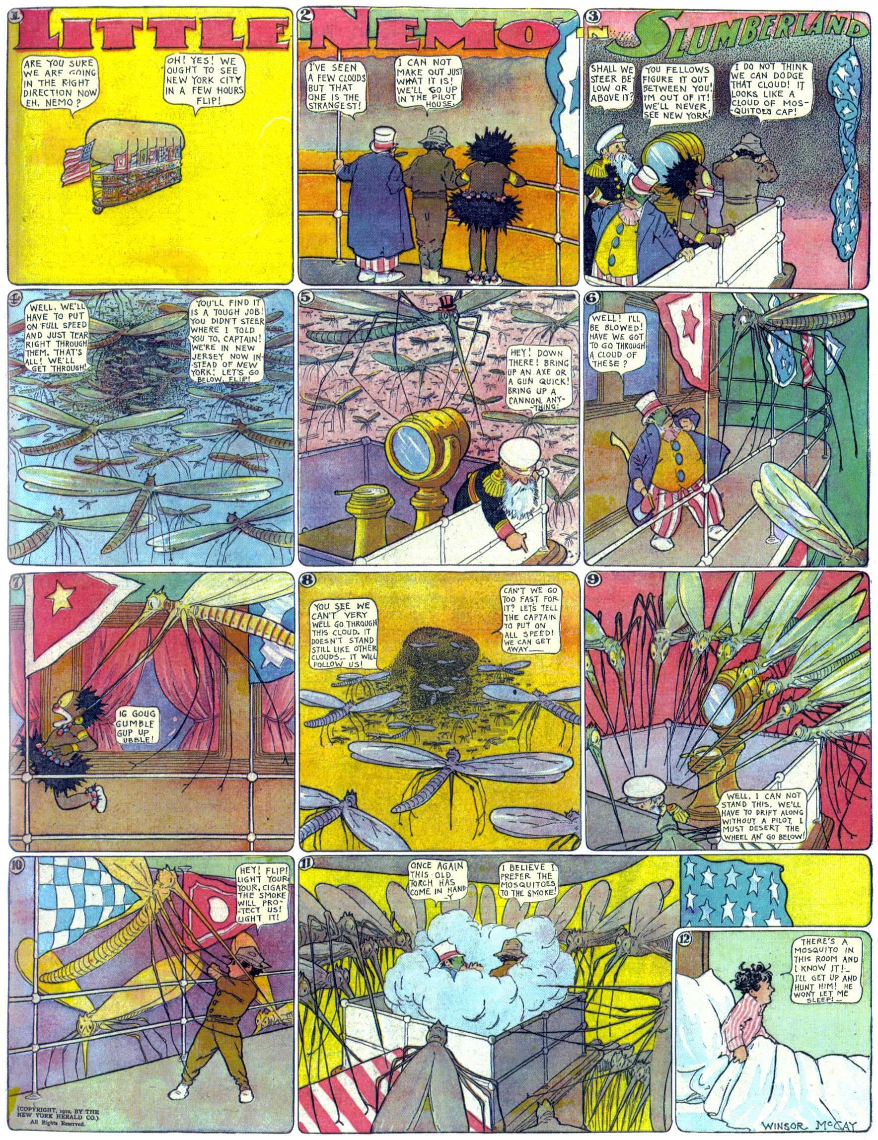 Little Nemo comic strip by Winsor McCay.